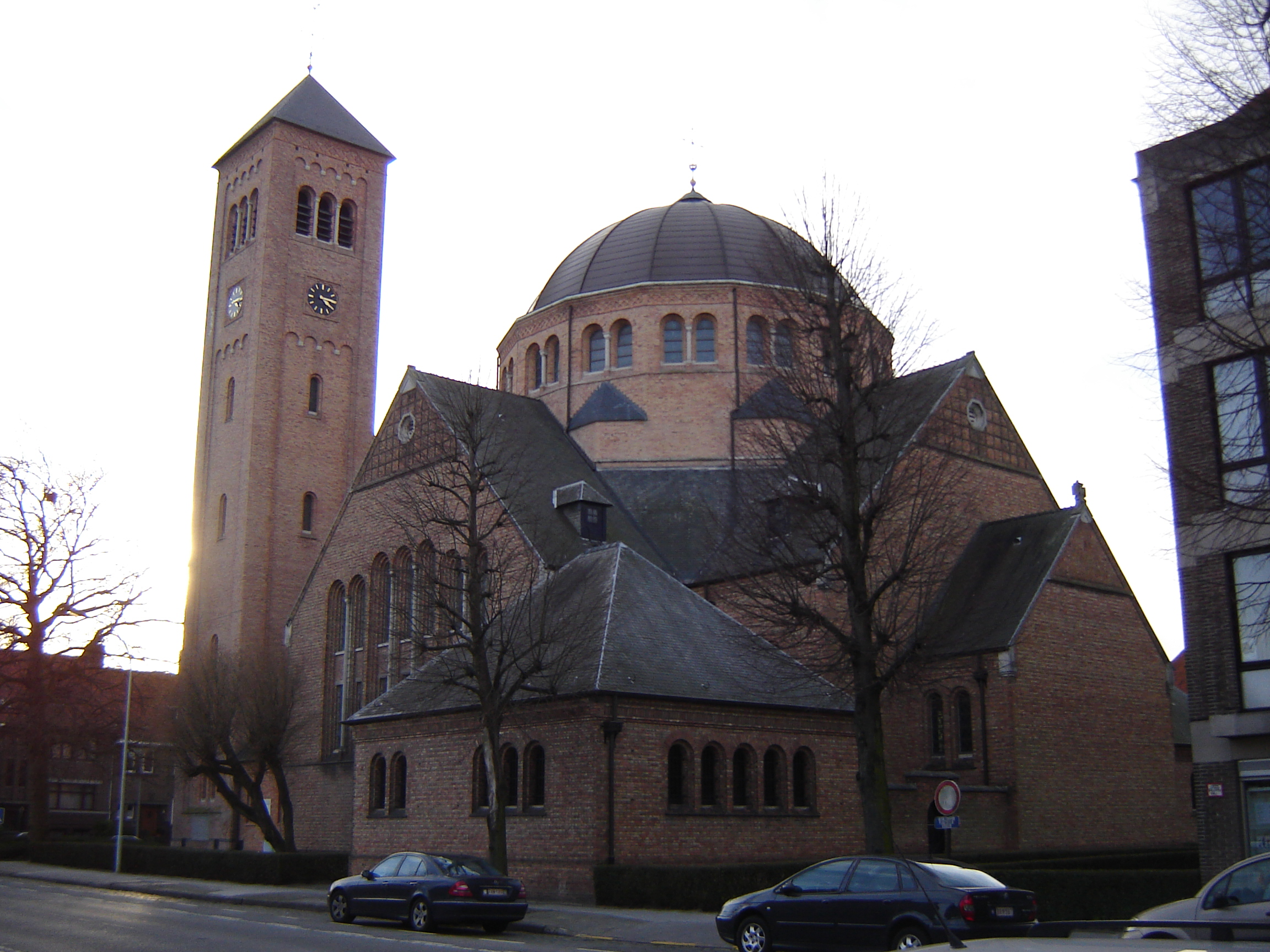 Church of Christ the King in Brugge. Brugge, West Flanders, Belgium.